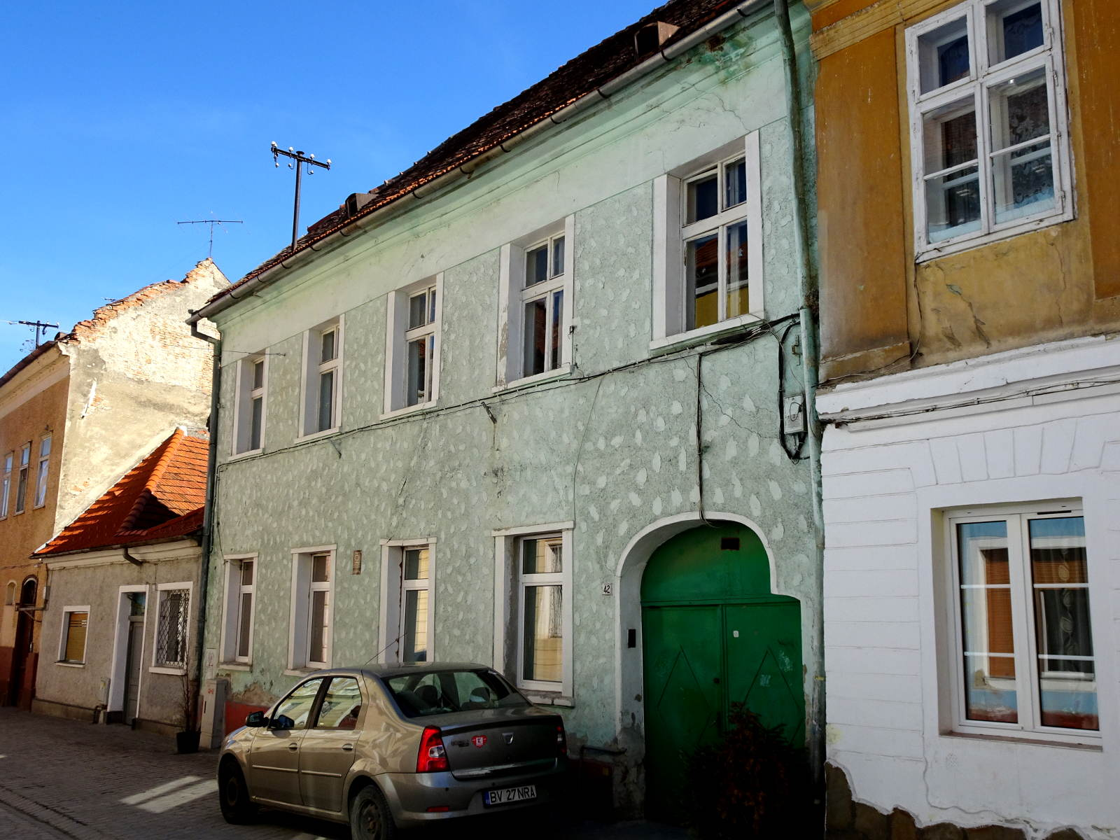 House on Postăvarului street in Brașov; house number 42